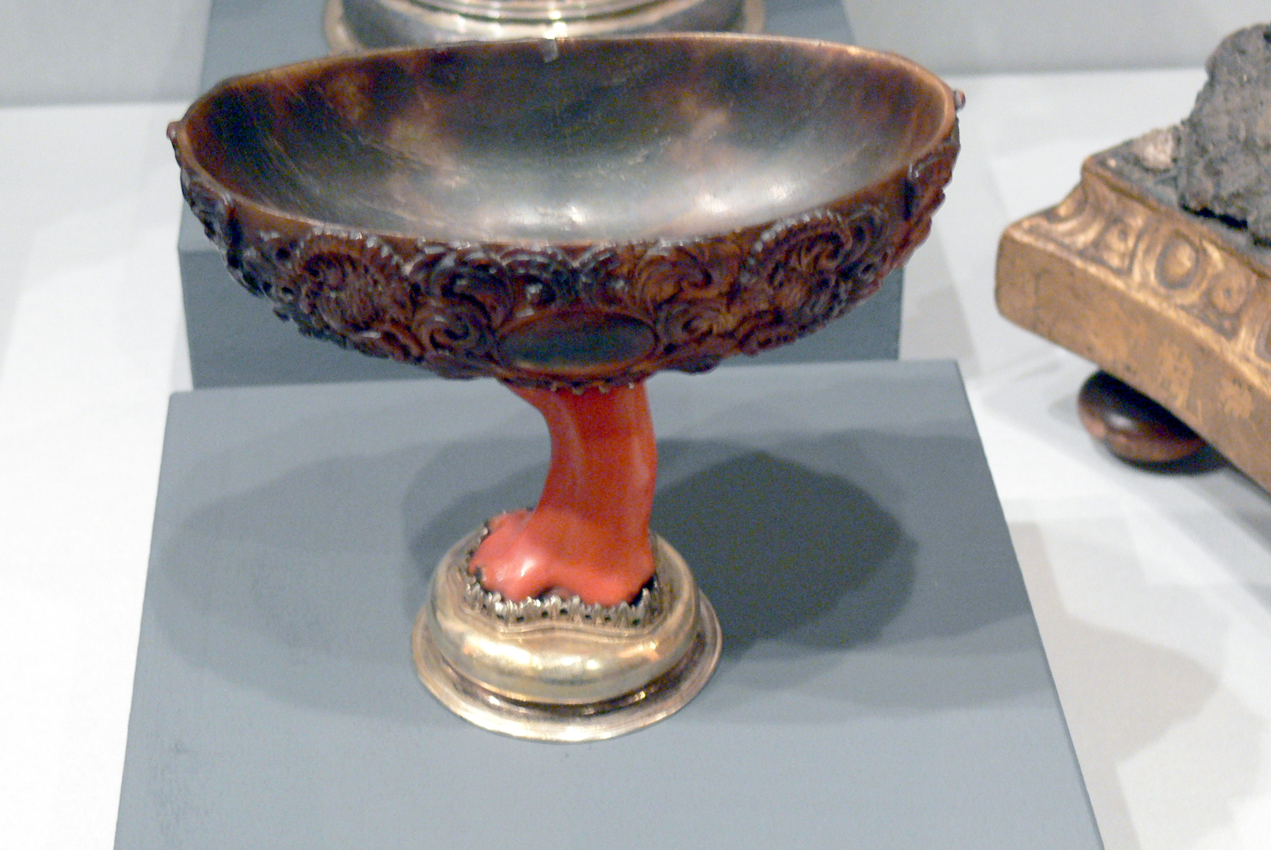 Museum of Mining and Gothic art in Leogang ( Salzburg state ): Chalice made of ibex horn with coral hold ( ca.1700 ), from Salzburg.